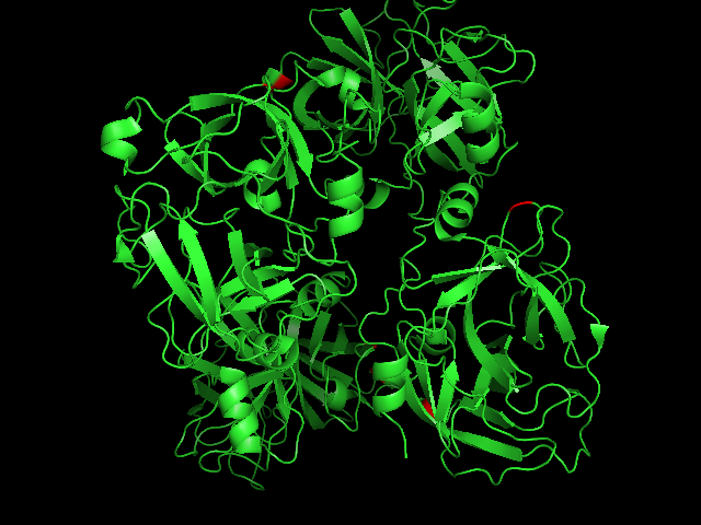 Pymol rendering of human enteropeptidase light chain, showing the site of the pancreatic cleavage.